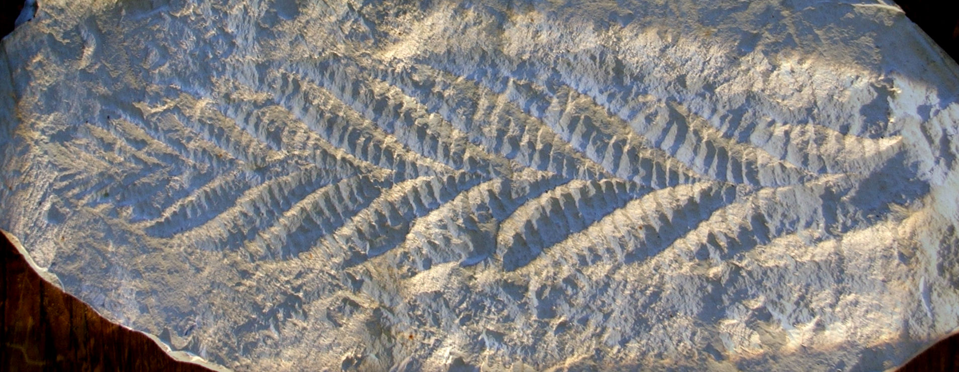 Rotated version of Image:Charnia_Half_Crop.jpg. Scale Frond length 20cm.